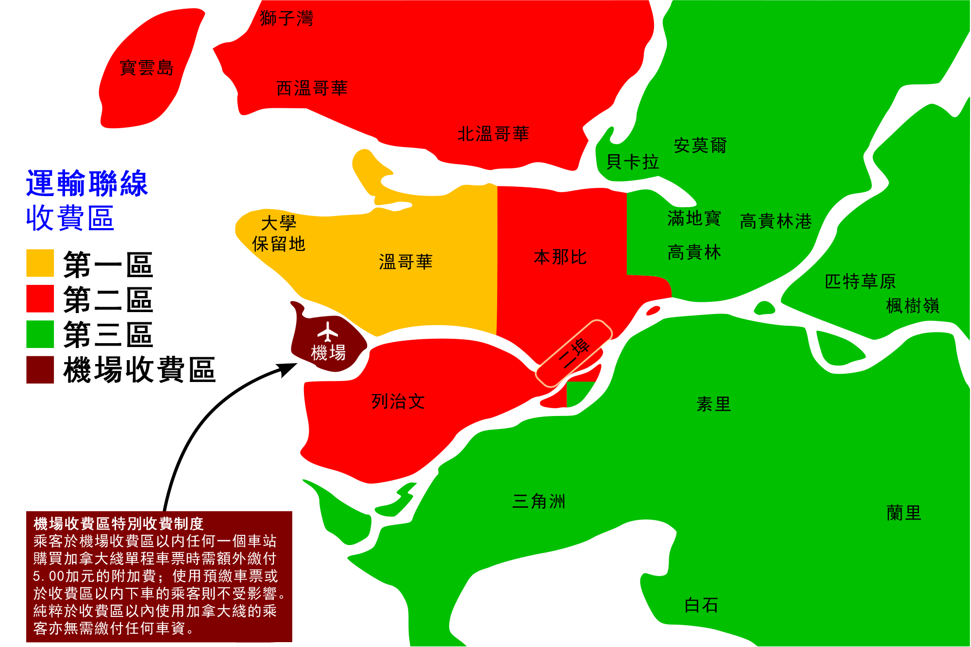 TransLink fare zone map (in Chinese).